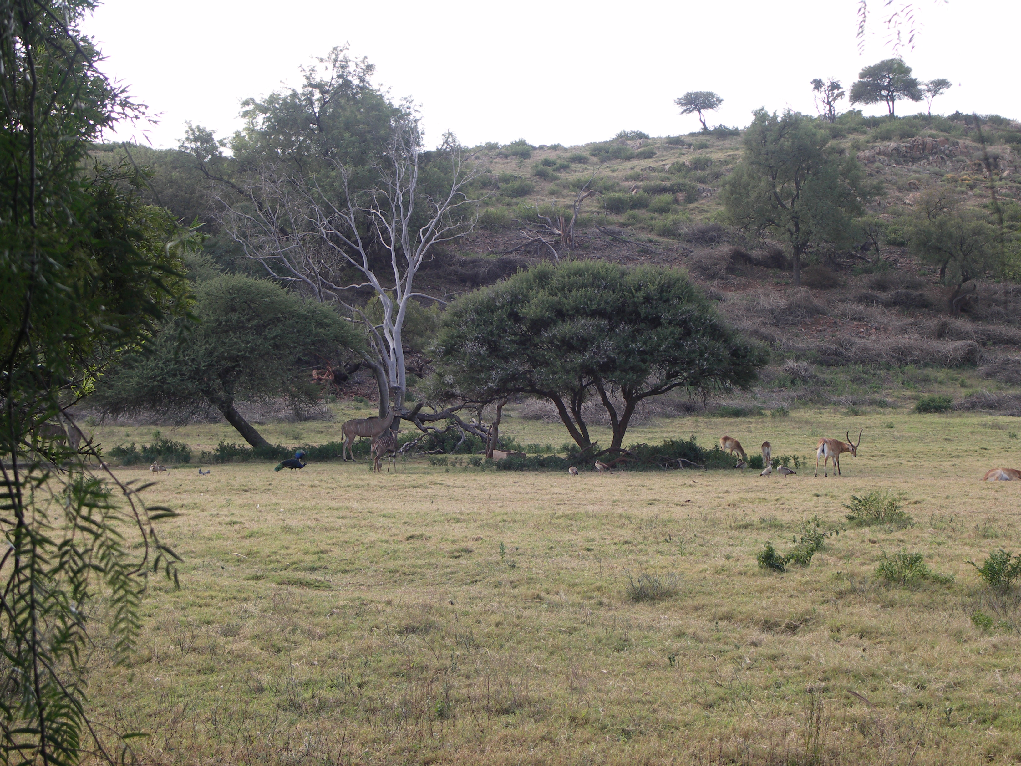 African savannah exhibit at the National Zoological Gardens of South Africa